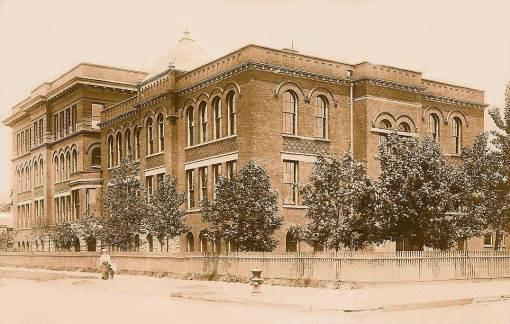 Postcard image of the West Pullman School (1894, with 1899 addition behind by William Bryce Mundie)